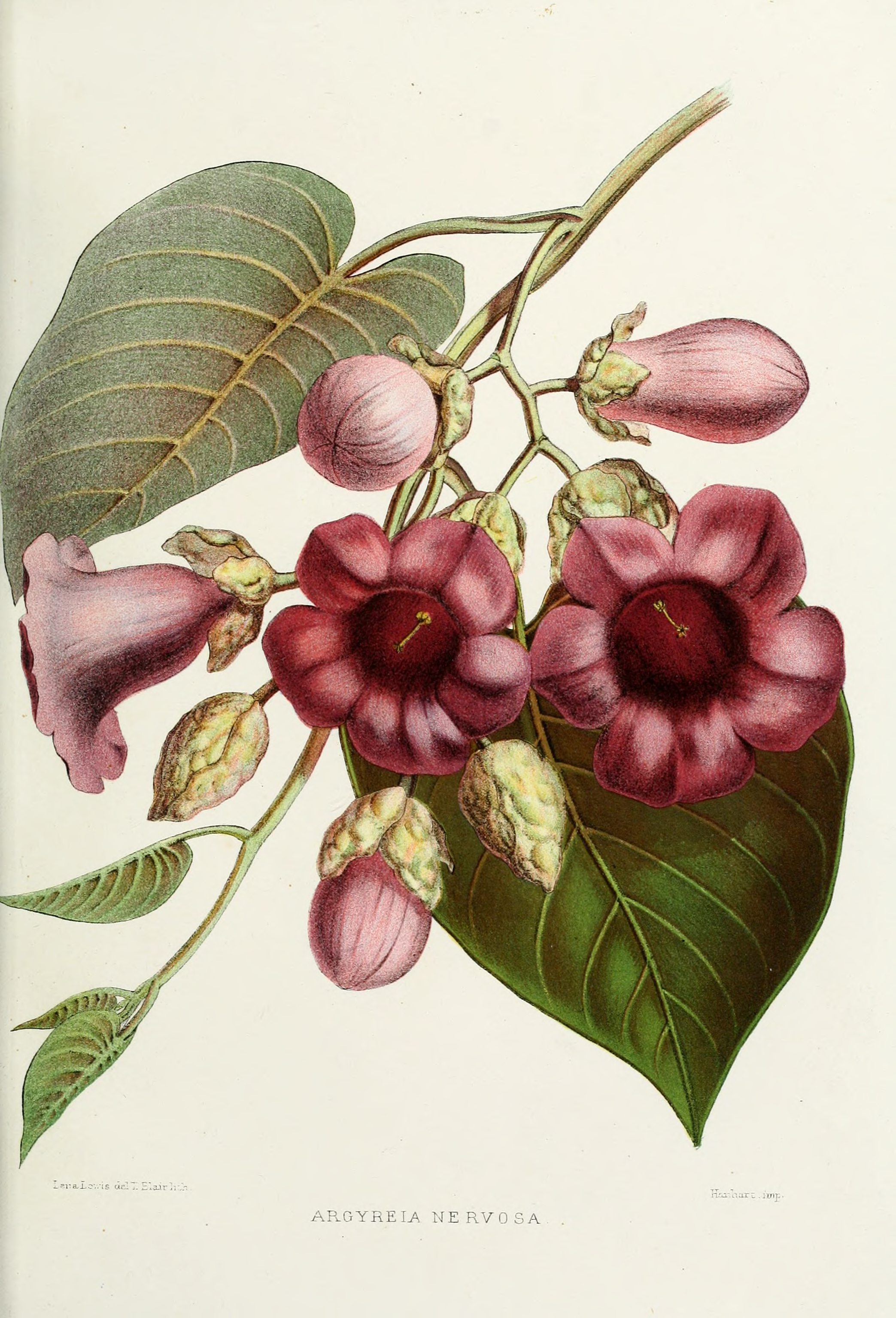 Colour drawing of petraea-stapelia from Familiar Indian Flowers (1878) by Lena Lowis.